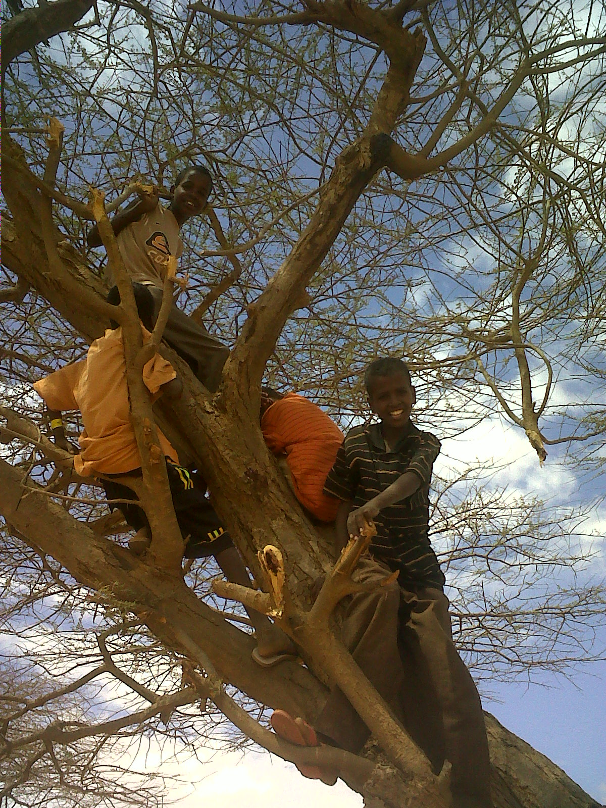 Despite the hardships of life in the Dadaab camps, children who are well enough still love to play and climb trees. But the drought situation in Dadaab and across the Horn of Africa region is becoming increasingly desperate for millions of people. The UK today announced a new package of support for over a million of the people most severely affected by the drought in the region. This UK aid package will provide assistance to: - 500,000 people in Somalia, including treatment for nearly 70,000 acutely malnourished children - Over 130,000 people in Dadaab refugee camps in Kenya, including access to clean drinking water and health care for one third of refugees - Over 100,000 people in Dolo Ado refugee camps in Ethiopia including access to shelter, clean drinking water and treatment for starving children - 300,000 Kenyans, including special rations to prevent malnutrition in children under the age of five and breastfeeding mothers To find out more about how the UK is helping people affected by the drought in the region, please visit